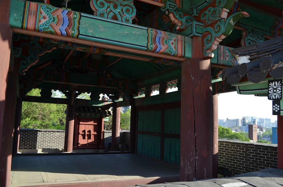 Hyehwamun Gate, also known as Northeast Gate or Dongsomun, Seoul, South Korea. Photographed May 5, 2012. Photo shows interior of wooden gatehouse above gate.